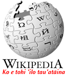 Wikipedia Tongan 2.0